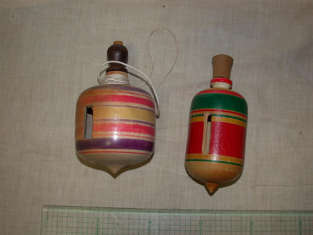 Japanese Spinning Tops:narigoma(itohikigoma type) from my collection Author;Keisotyo